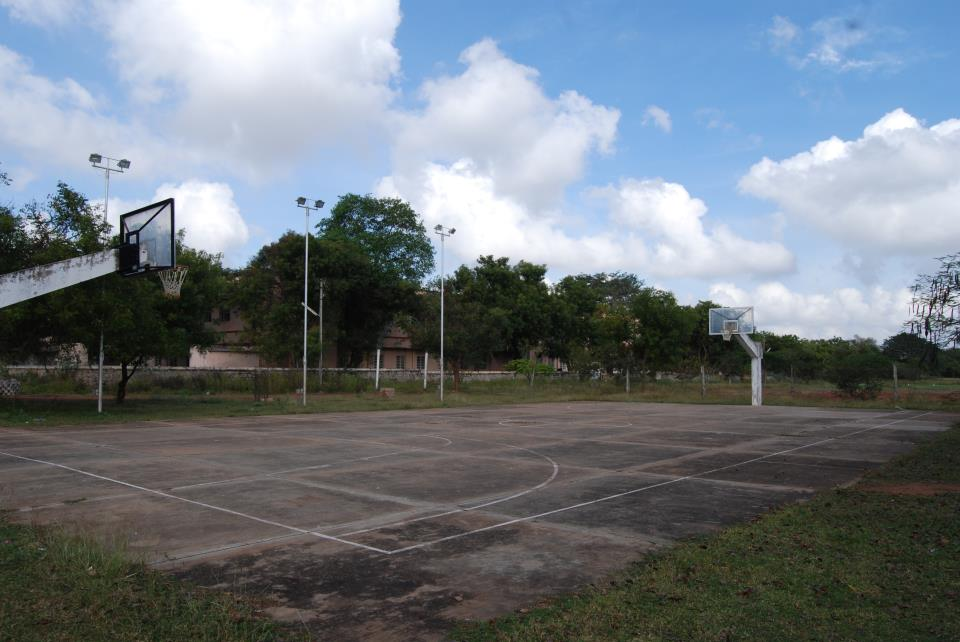 Basket Ball court at Ground